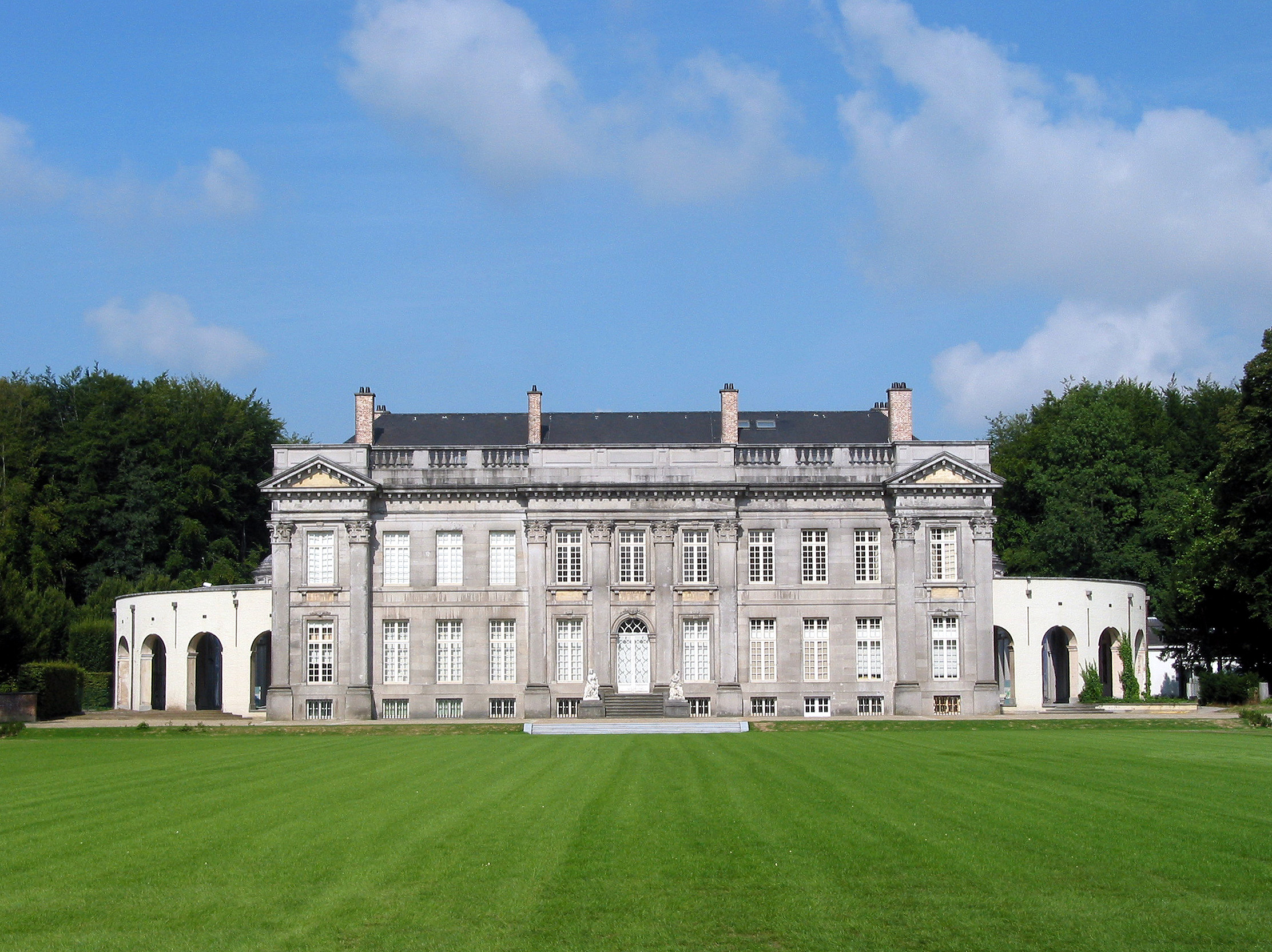 Seneffe (Belgium), the back side of the castle (1763/1768 - Architect: Laurent-Benoit Dewez).